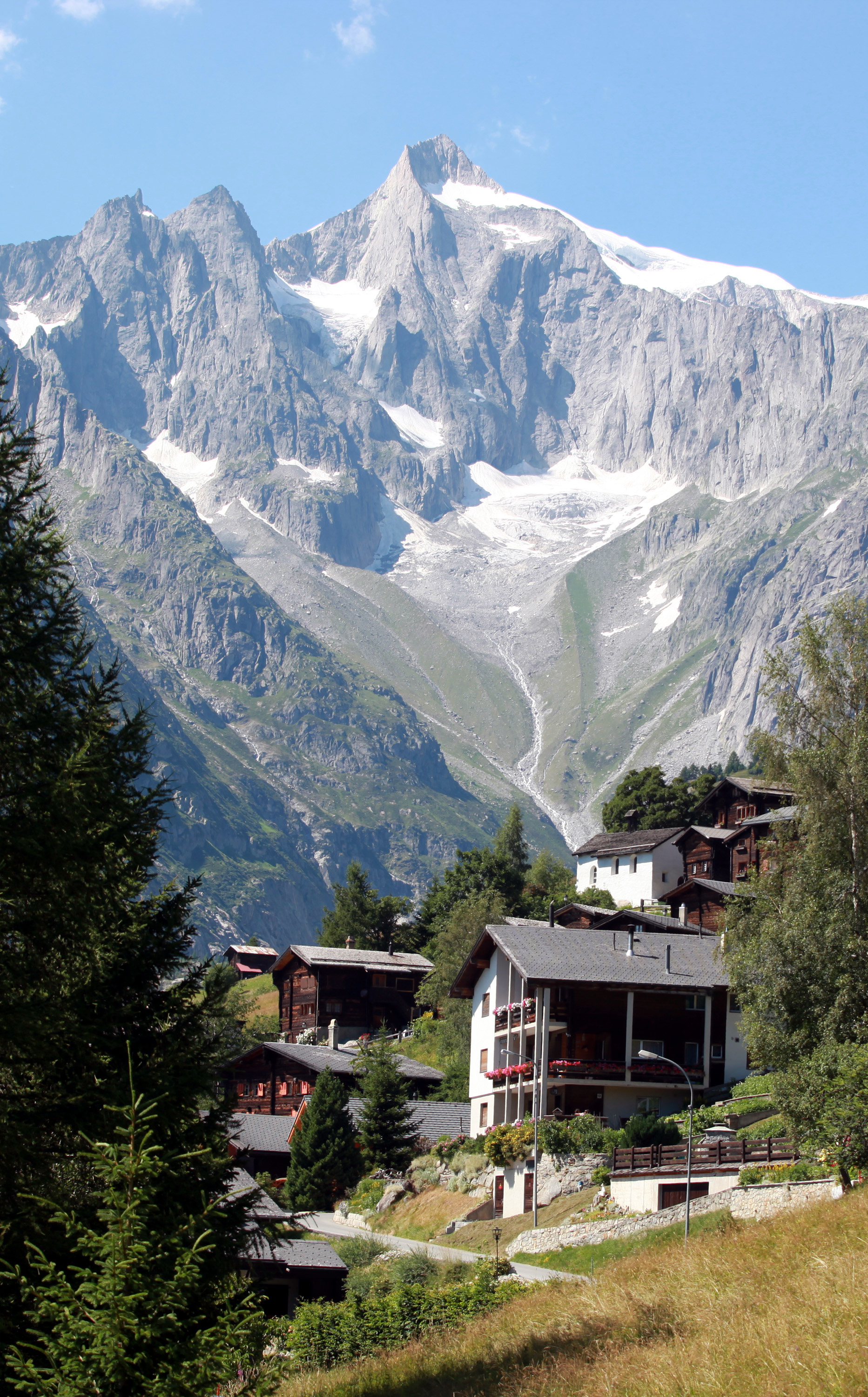 Ried, part of the township of Bellwald in Valais (Switzerland). The mountain Klein Wannenhorn in the Background